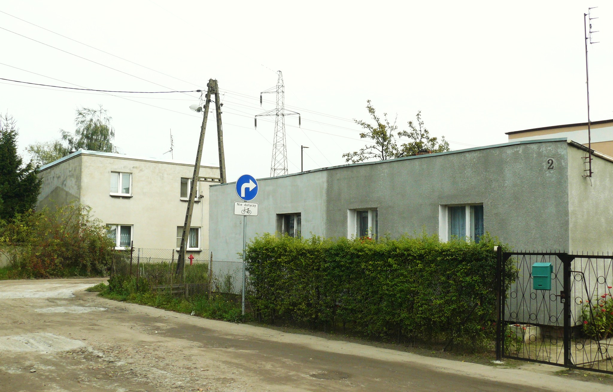 Poznan, Legnicka Street.